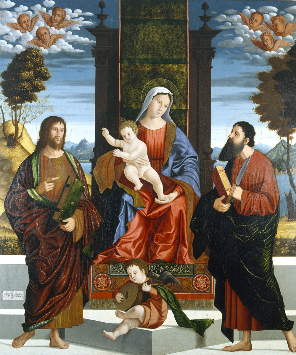 200 × 167.5 cm (78.7 × 65.9 in)